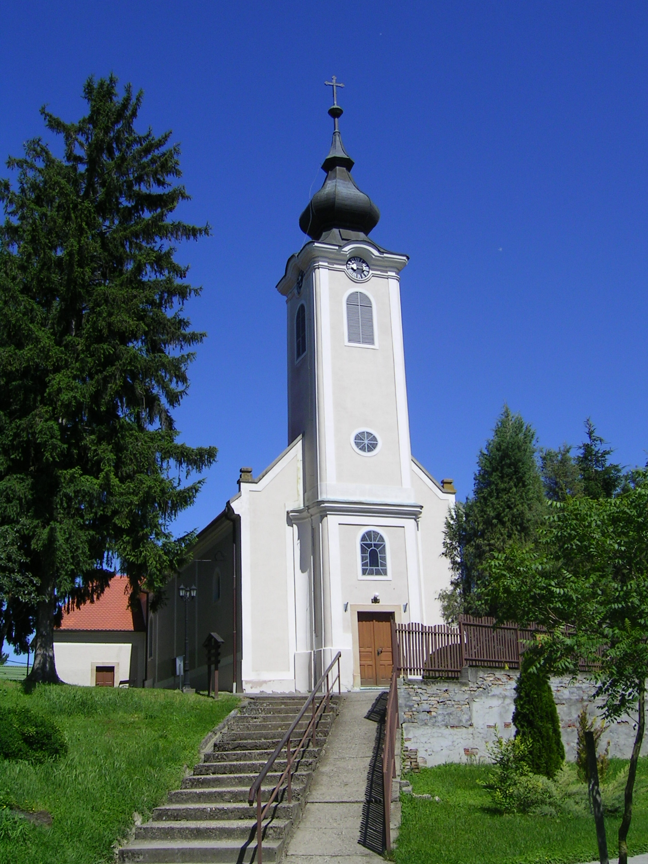 Roman catholic church in Szajk, Hungary